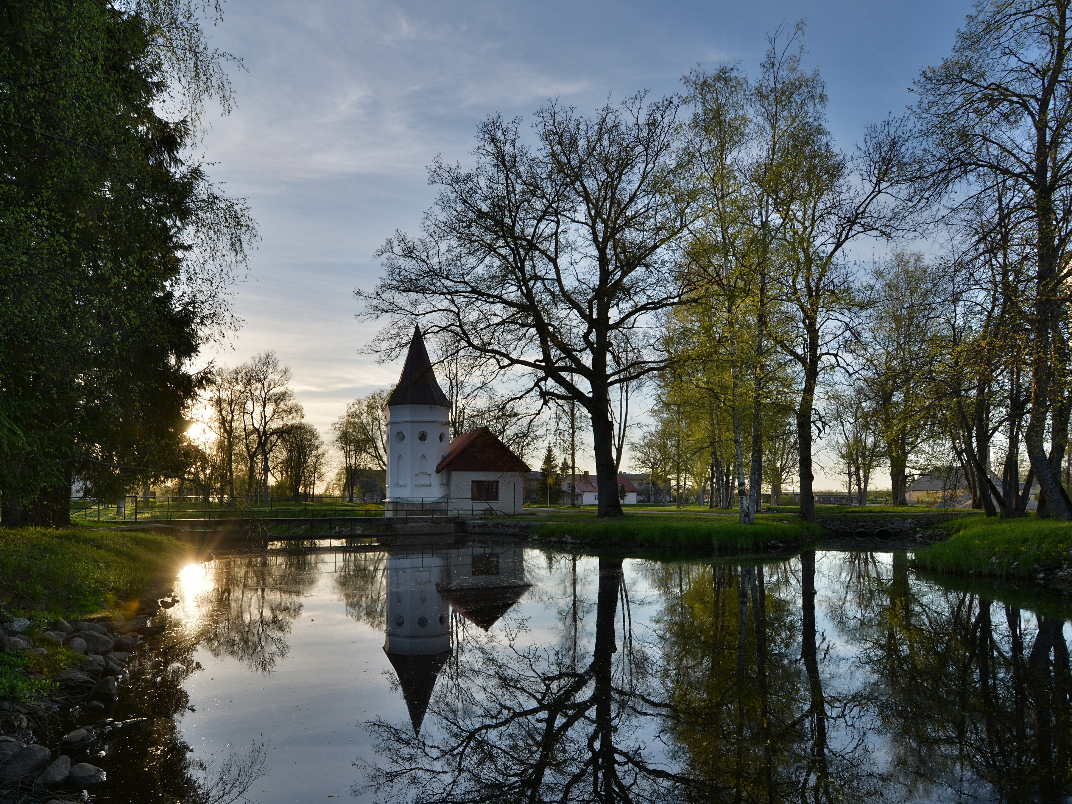 Koluvere manor turbine building, built in the 19th century.